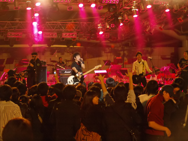 Korean Band, "Crying Nut" Concert in Hanyang University